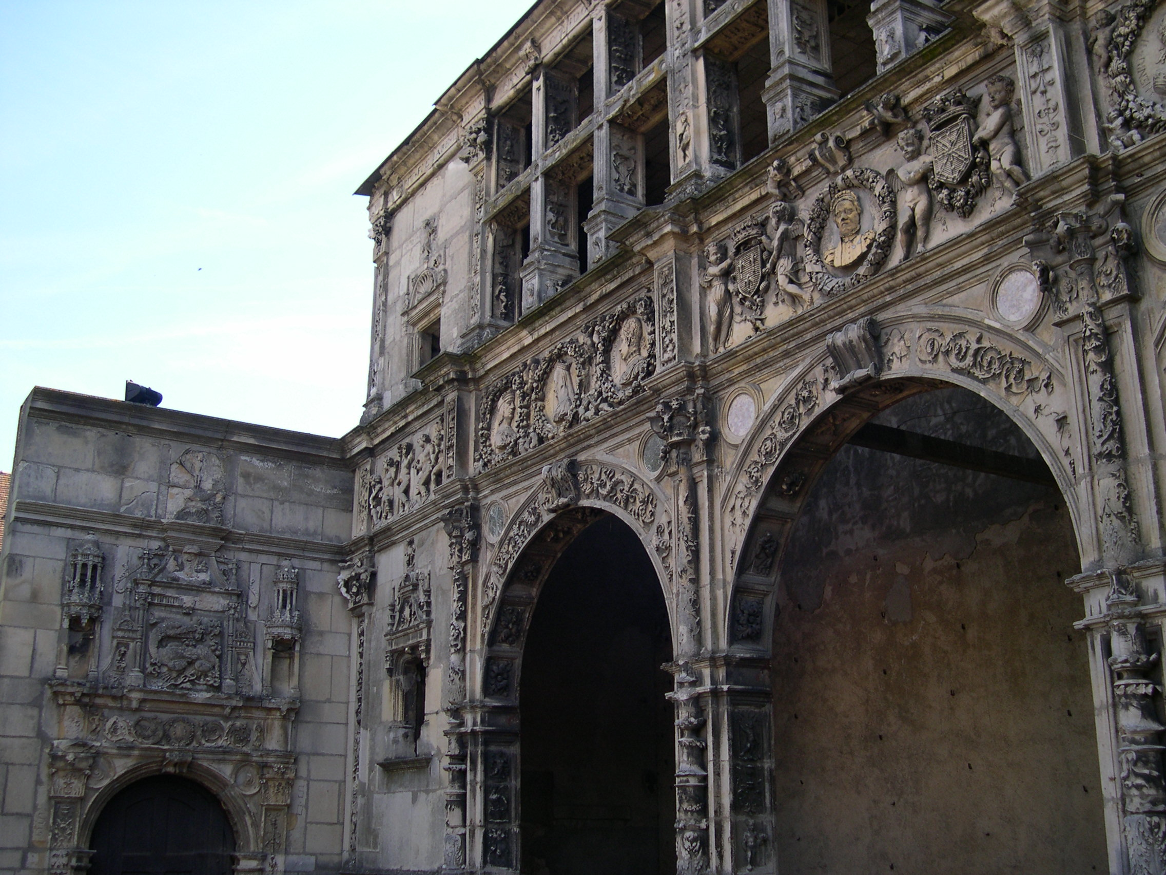 Francis I wall in Moret-sur-Loing, France